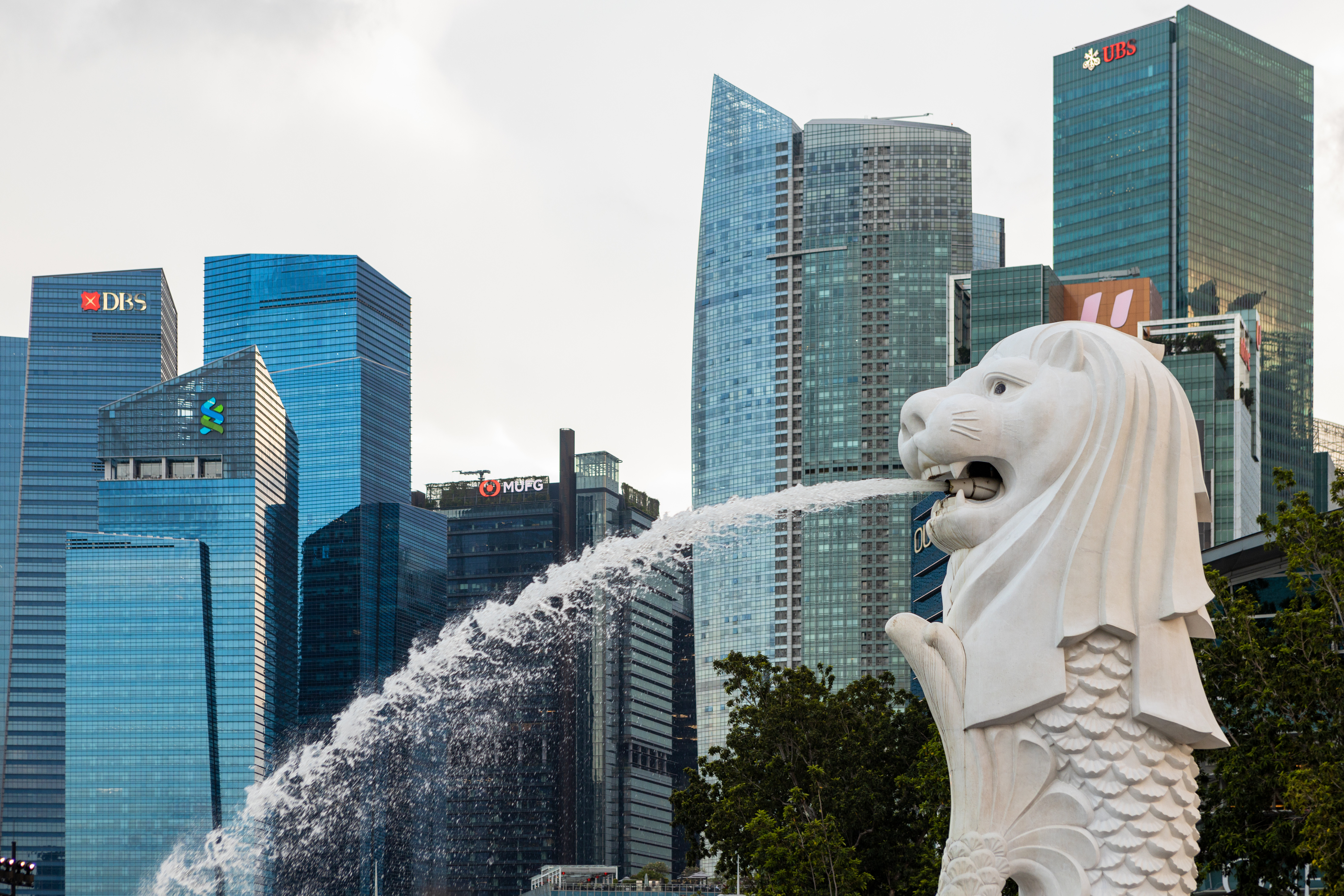 The Merlion (Malay: Singa-Laut